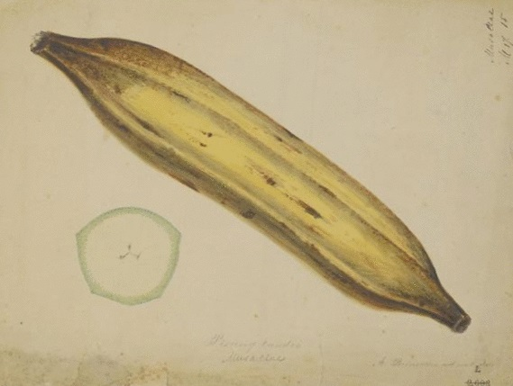 Unidentified plants